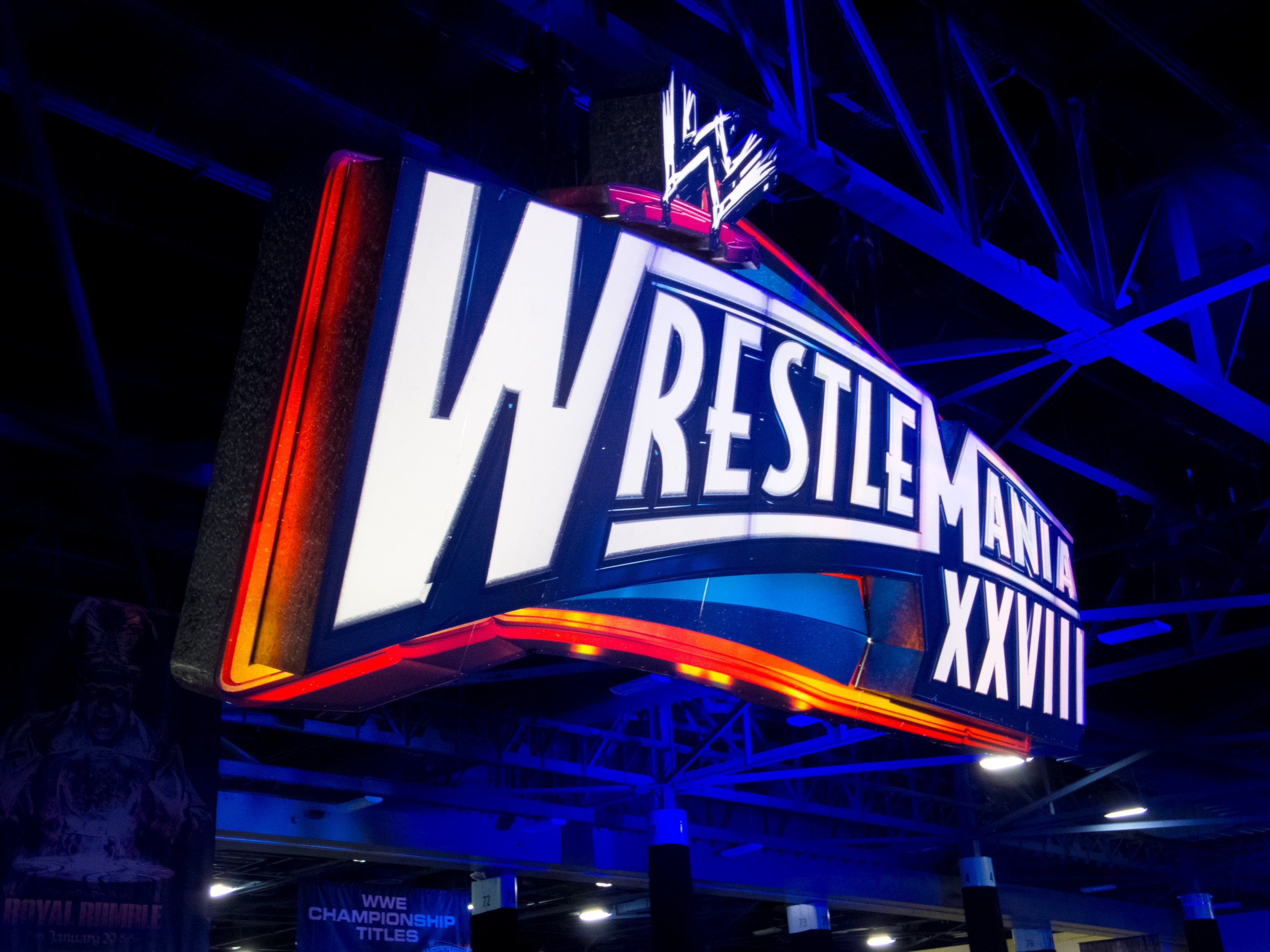 WWE Fan Axxess - Miami '12